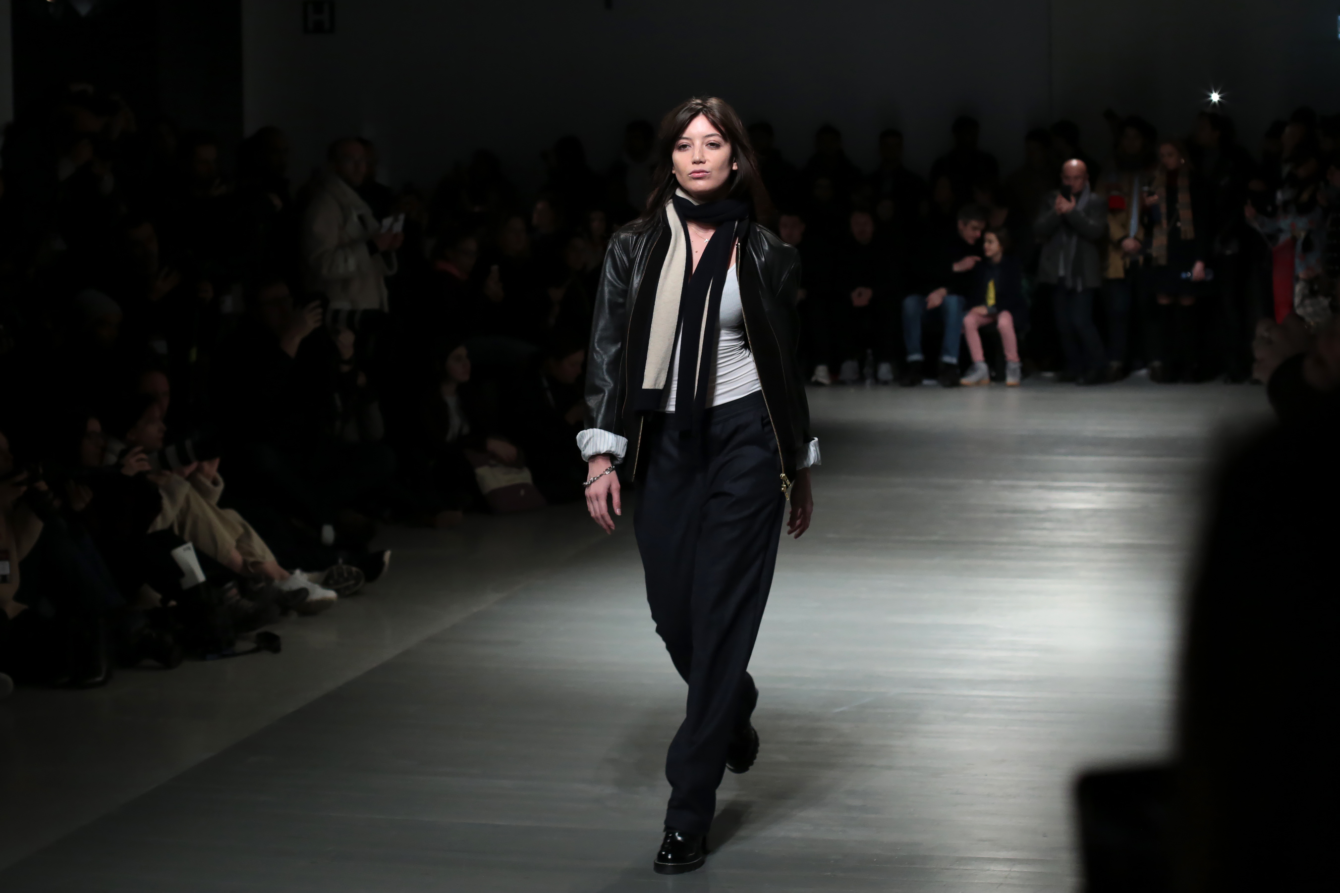 Daisy Lowe Catwalk for Oliver Spencer AW18